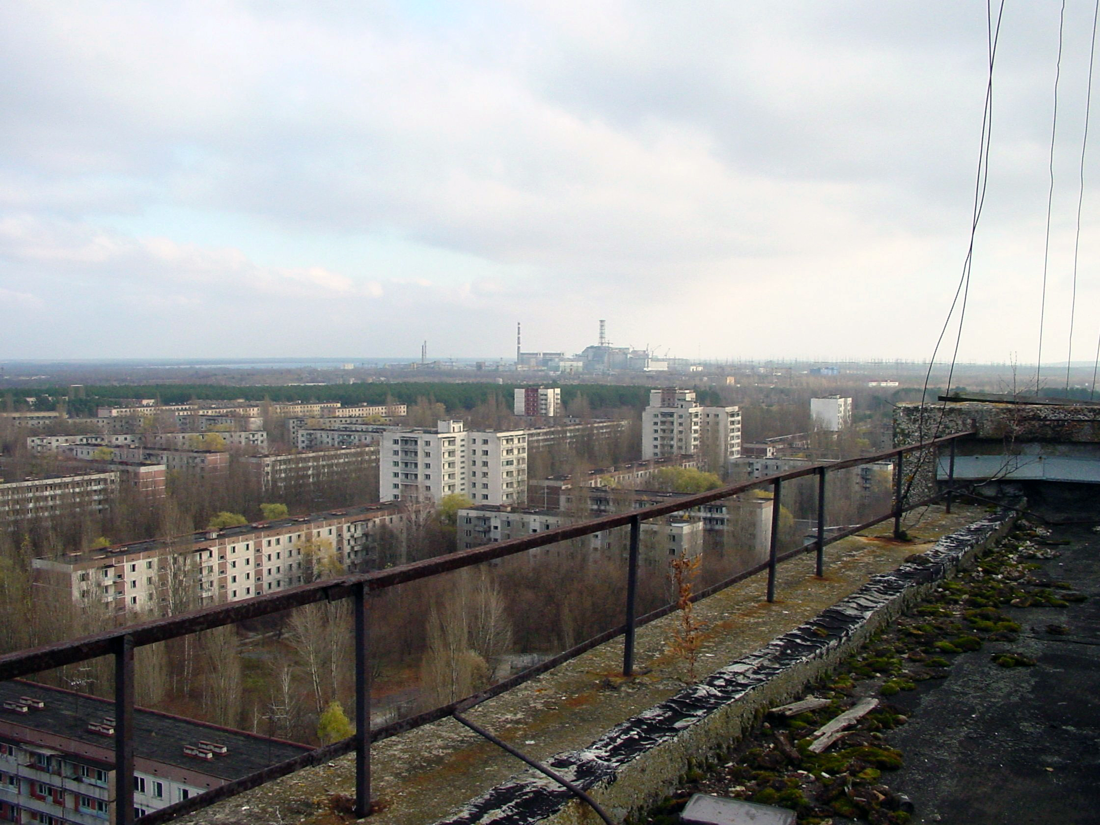 View of Chernobyl power plant taken from the roof of a residential building in Pripyat, Ukraine. Photo Taken by Jason Minshull.